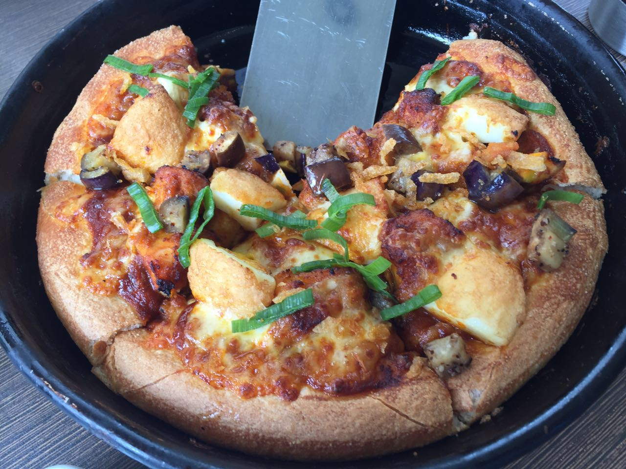 A portion of Balado pizza in a restaurant in Jakarta